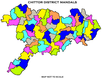 Chittoor district mandals outline map